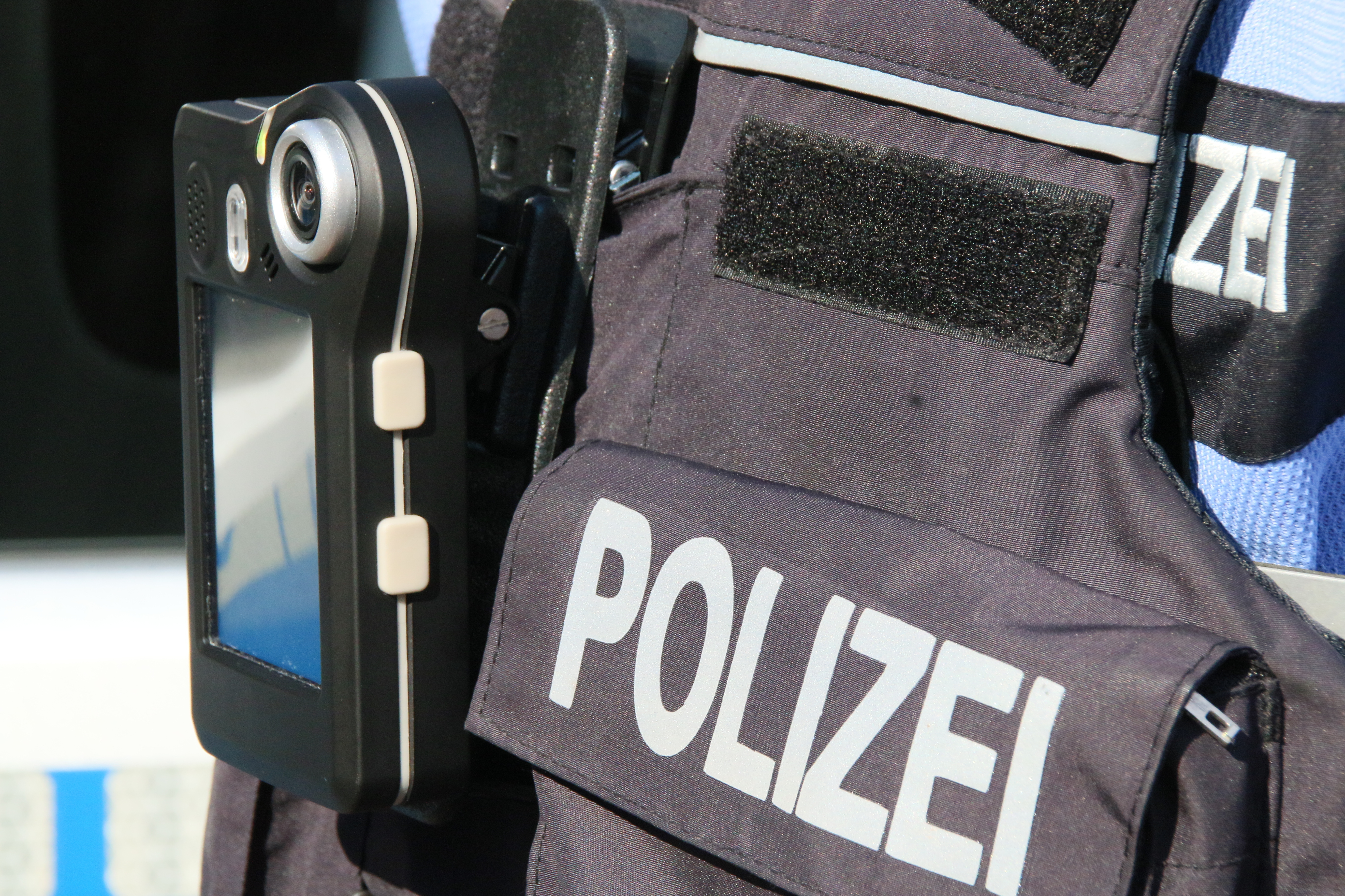 A body worn camera supplied by WCCTV to Magdeburg Police, Germany in 2017.